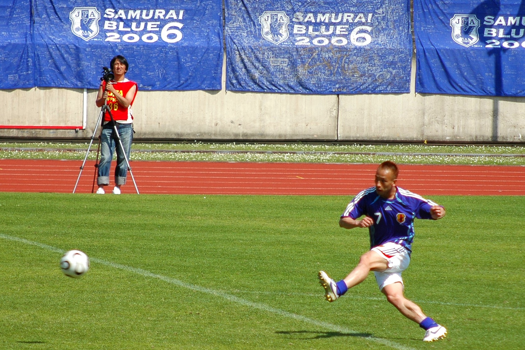 Japanese soccer player Hidetoshi Nakata, preparing for Football World Cup 2006